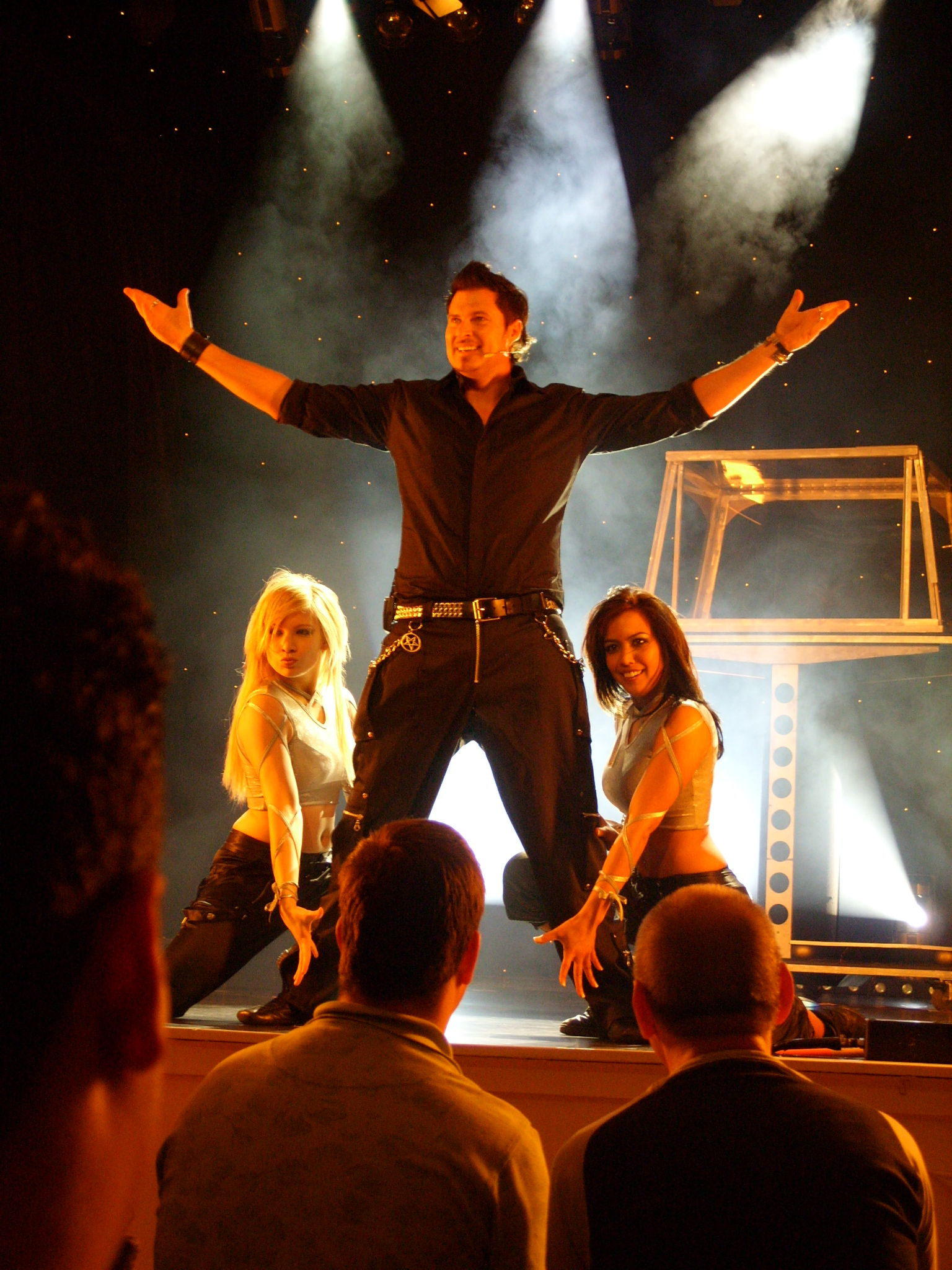 Farla Assistents